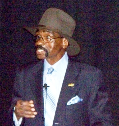 Former middleweight boxer Rubin Carter; falsely convicted of murder; subject of a Bob Dylan song. Carter spoke of his experience at Bunker Hill Community College, Boston, Mass. on March 24, 2011. (revision of the original text)